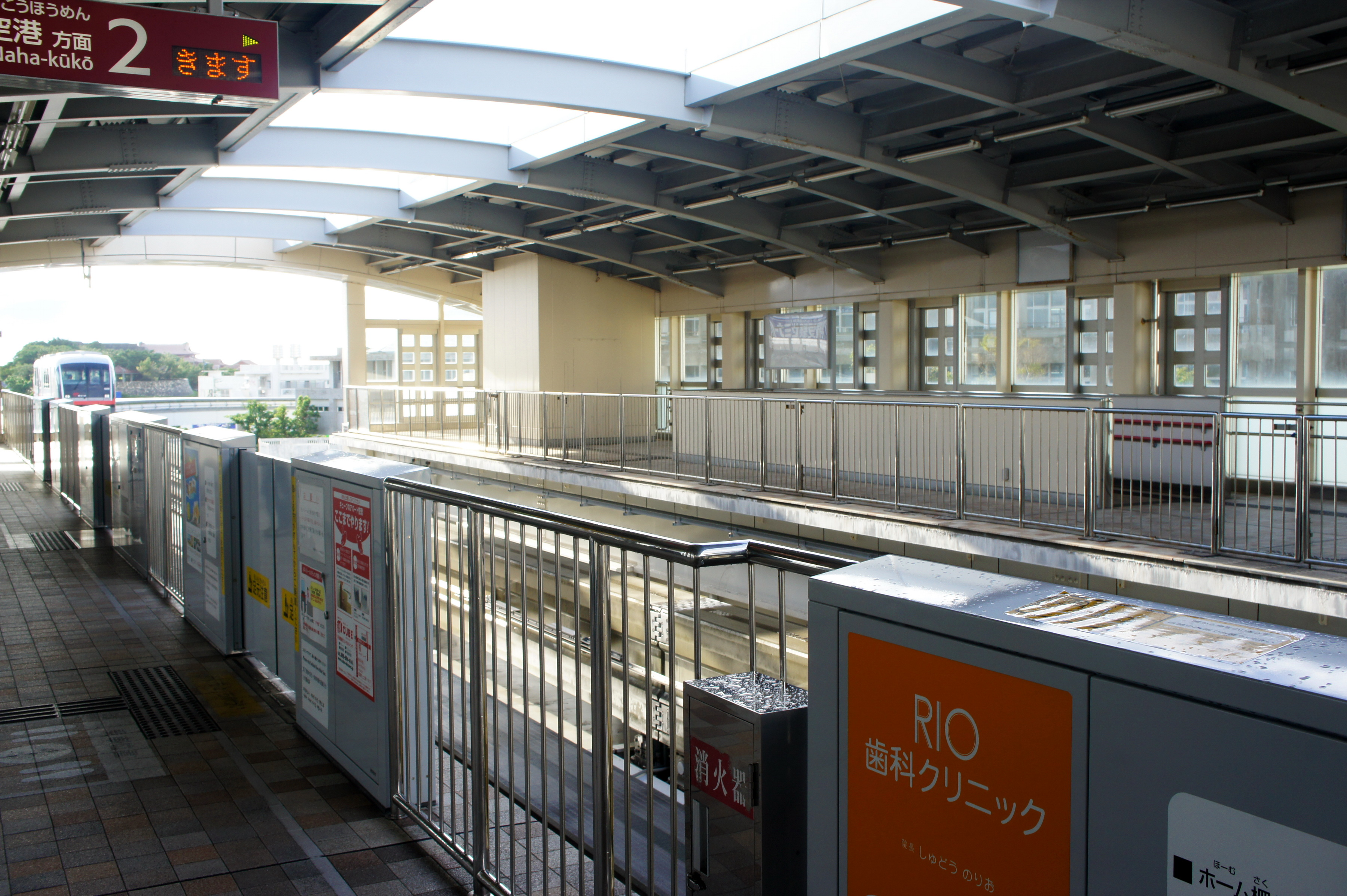 Okinawa City Monorail Line (Yui Rail), Shuri Station (Okinawa)